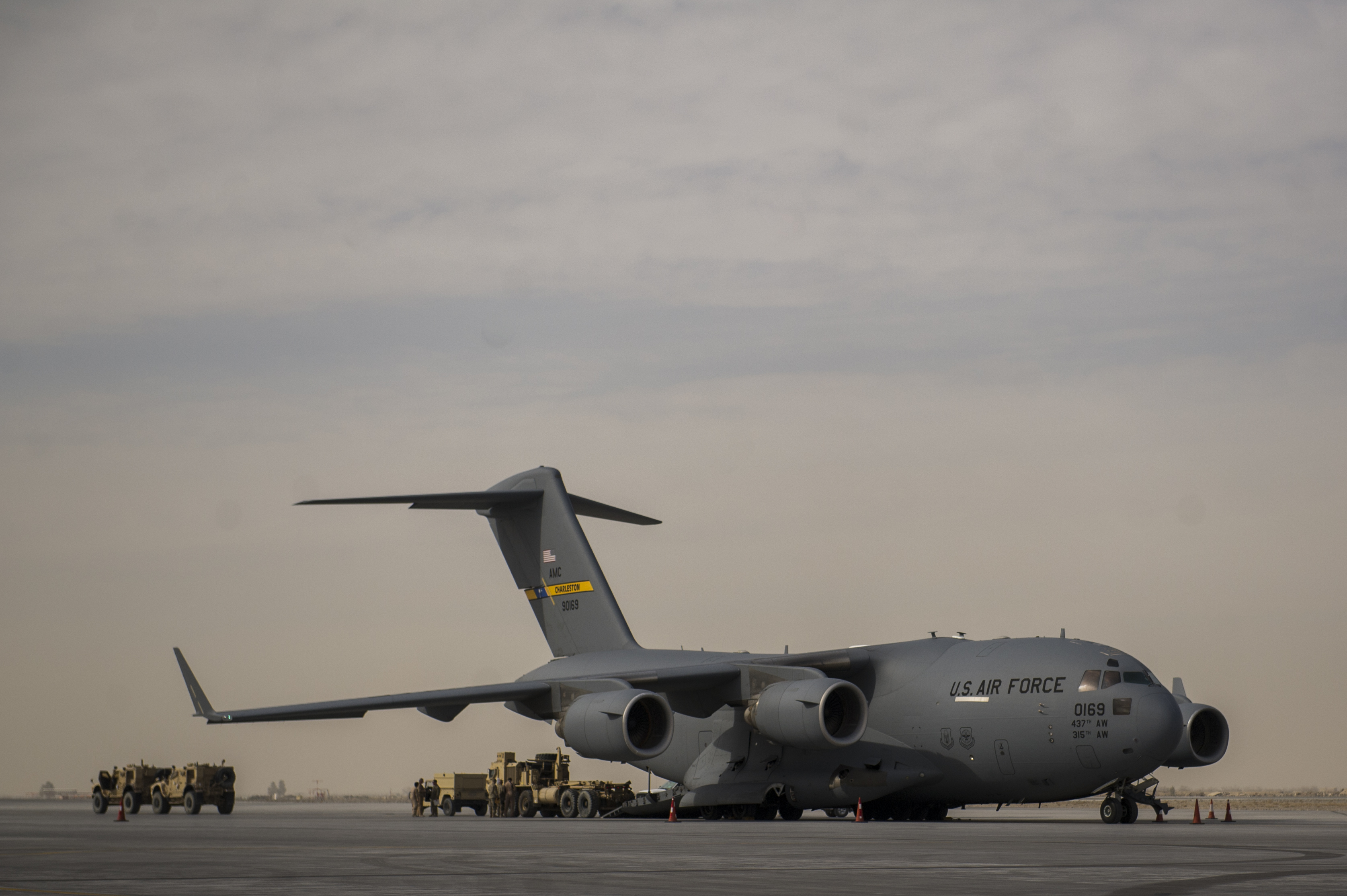 A U.S. Air Force C-17A Globemaster III aircraft with the 817th Expeditionary Airlift Squadron receives cargo at Kandahar Airfield, Afghanistan, Jan. 3, 2014. The C-17A was deployed from Joint Base Charleston, S.C., in support of the 405th Air Expeditionary Group and the U.S. Central Command Deployment and Distribution Operations Center, a logistics hub assisting with the U.S. departure from Afghanistan.